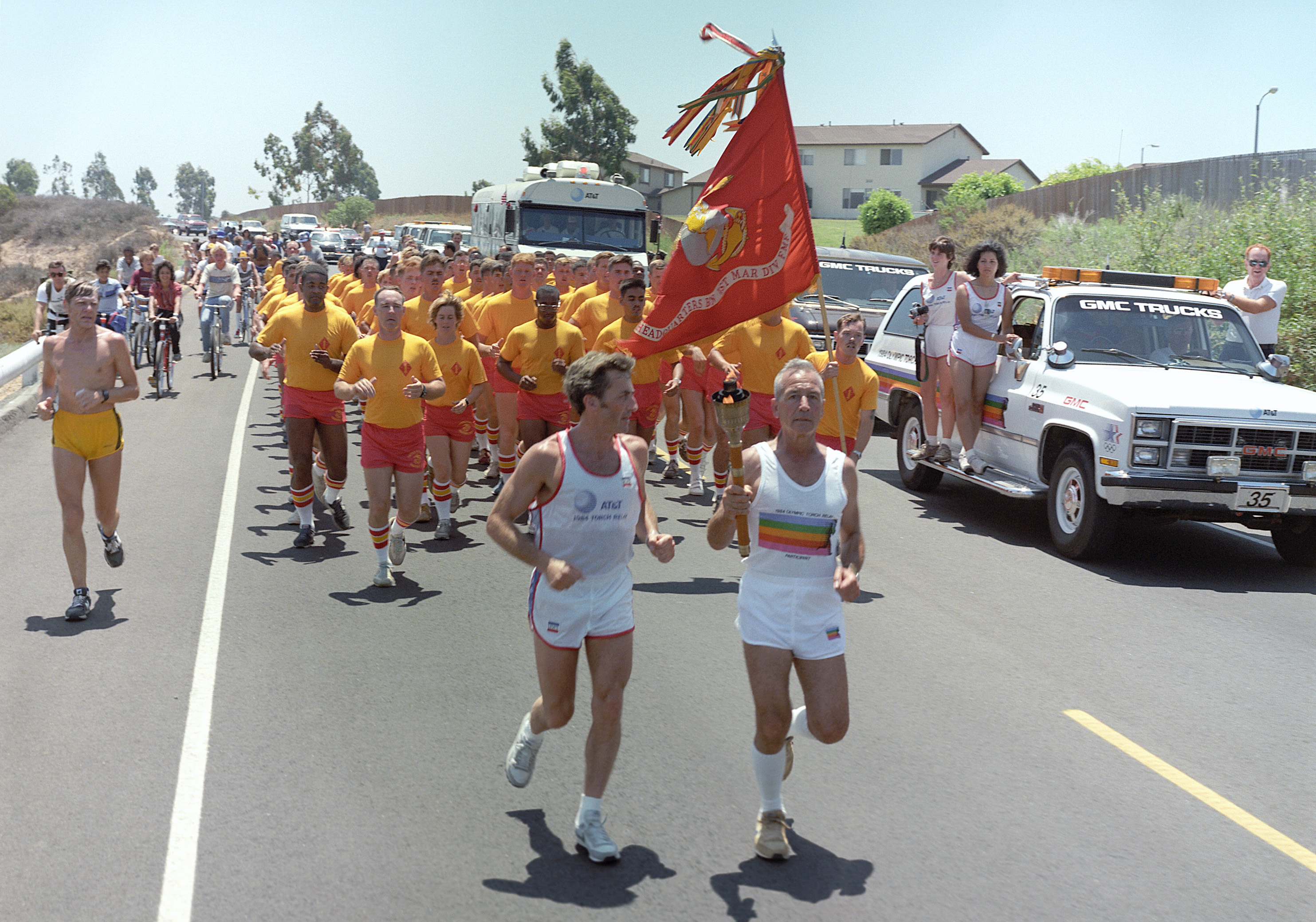 Staff Major Dominick Irrera, 1st Marine Division, leads a platoon of Marines as he carries the Olympic flame on its way to the 1984 Olympic Games in Los Angeles.